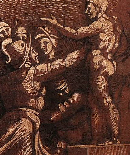 Sistine Chapel, fresco Michelangelo, detail of the destruction of the idol of Baal